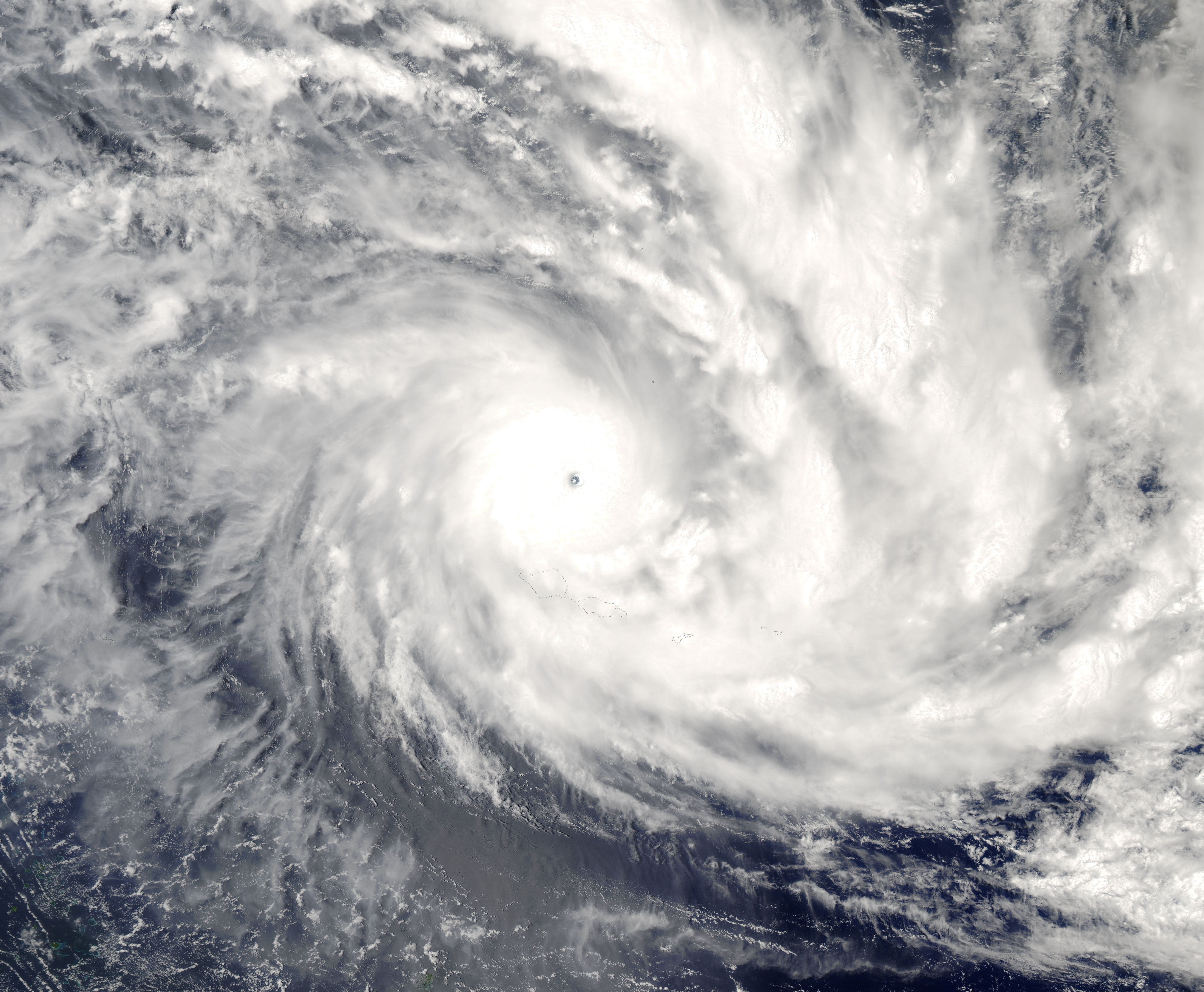 Cyclone Olaf strengthens in the South Pacific in this Moderate Resolution Imaging Spectroradiometer (MODIS) image from February 16, 2005. As of the afternoon of February 15, Olaf was approaching Category 5 status, with sustained winds of 135 knots and gusts up to 165 knots. Its maximum sustained wind speed at the time of this image capture was 140 knots (1-minute average). According to the Joint Typhoon Warning Center, waves were estimated to be as high as 47 feet.